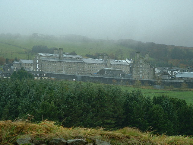 View of the Dartmoor Prison from the main road.